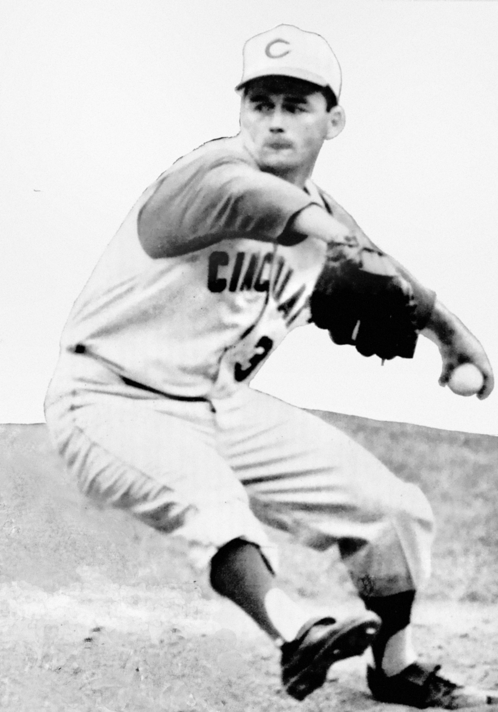 Circa 1963 action shot photograph of American baseball pitcher James Jerome O'Toole wearing a Cincinnati Reds uniform. This image is a retouched version of the July 1963 issue of Baseball Digest.